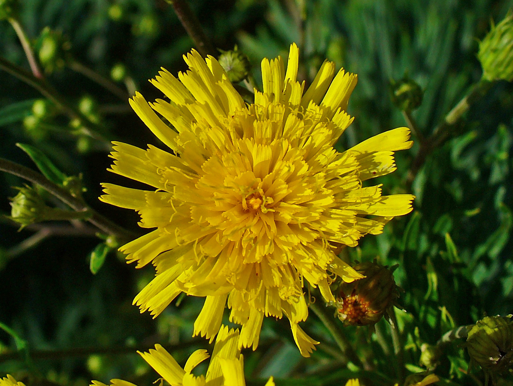 Hieracium umbellatum, Asteraceae, Narrowleaf Hawkweed, inflorescence. The plant is used in homeopathy as remedy: Hieracium umbellatum (Hier-u.)